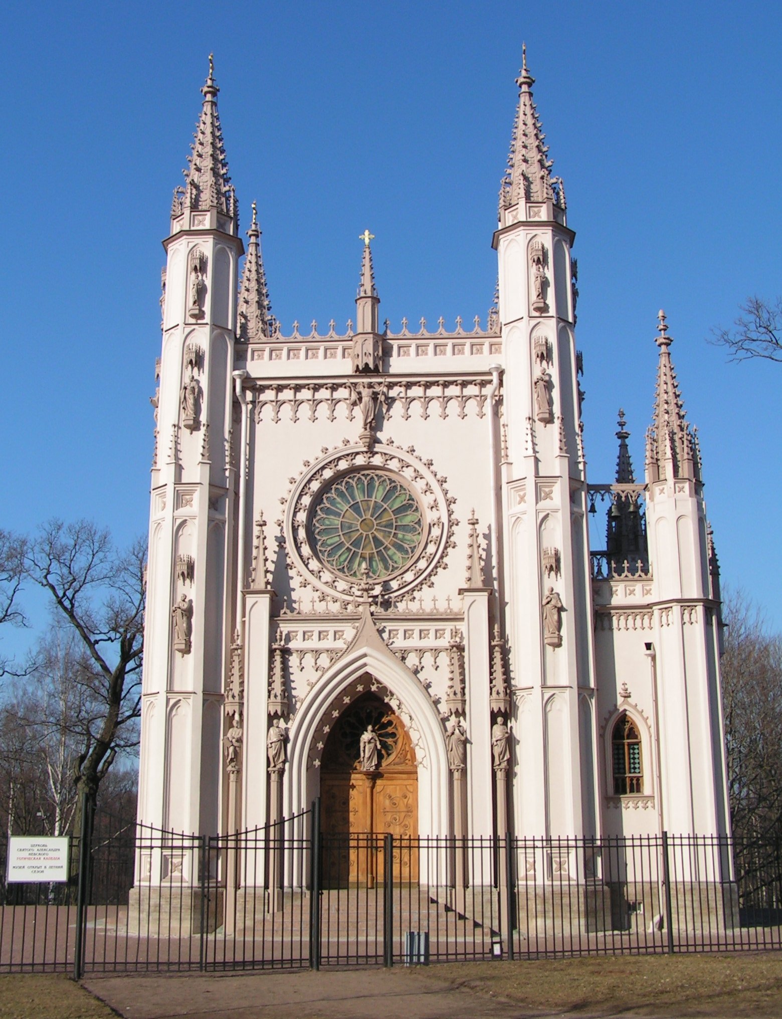 Peterhof (Russia)